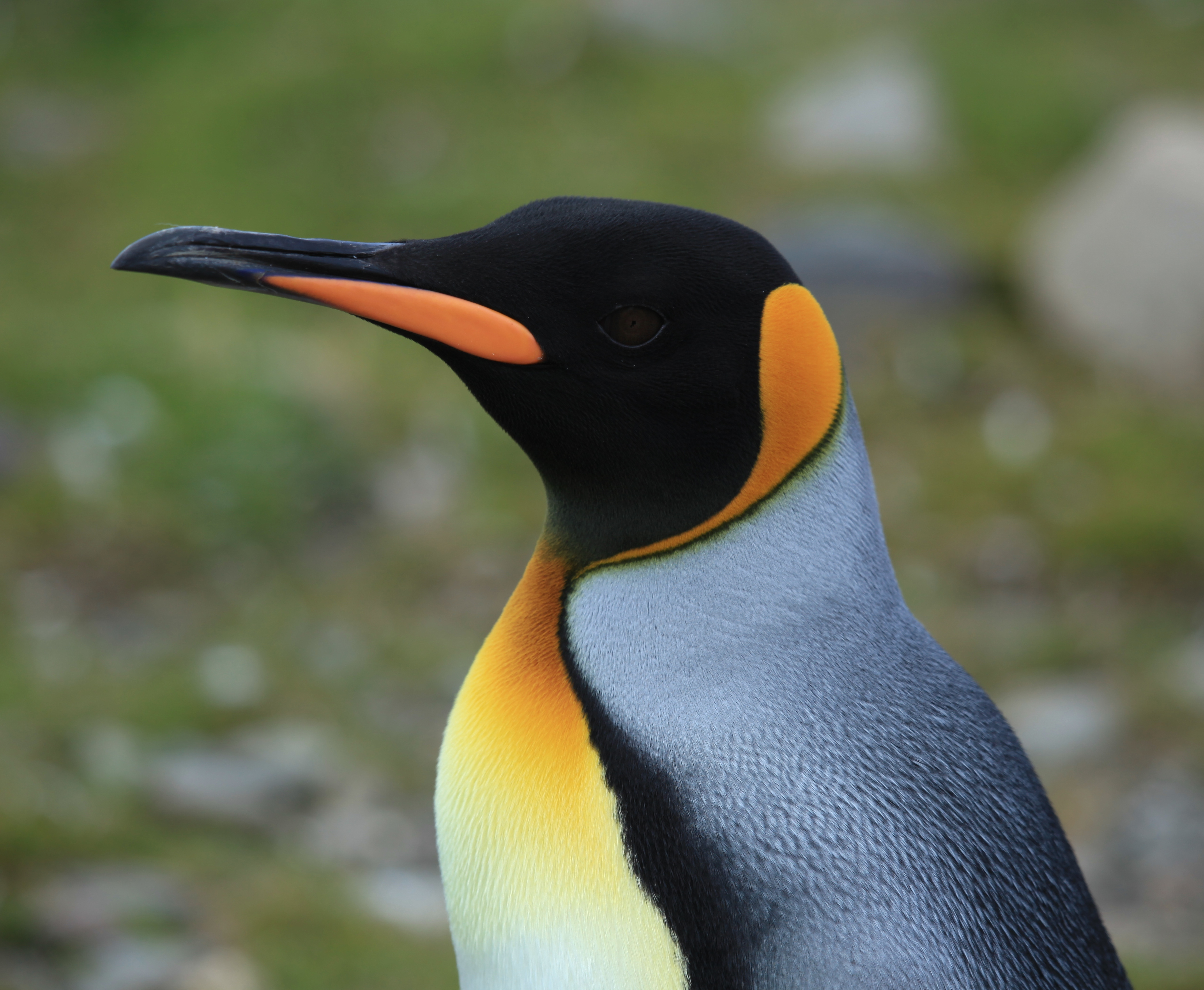 A King Penguin in St Andrews Bay, South Georgia, British Overseas Territories, UK.